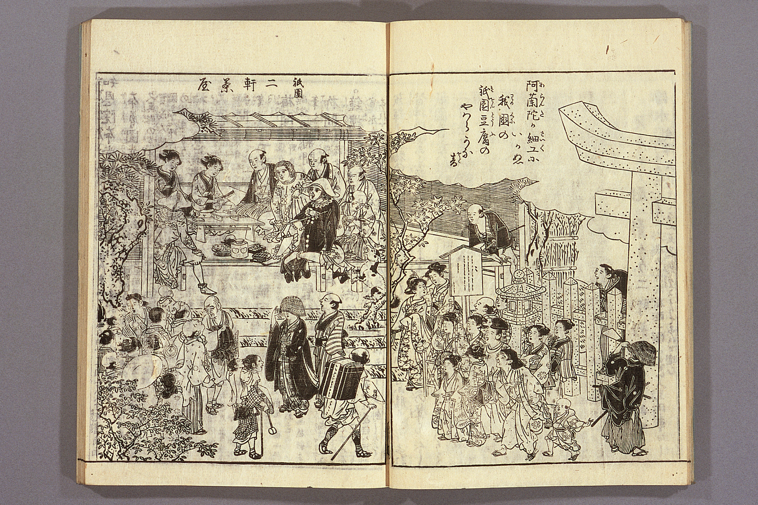 Shui Miyako meisho zue - performance of cutting tofu quickly while being entertained at Nikenjaya in Gion